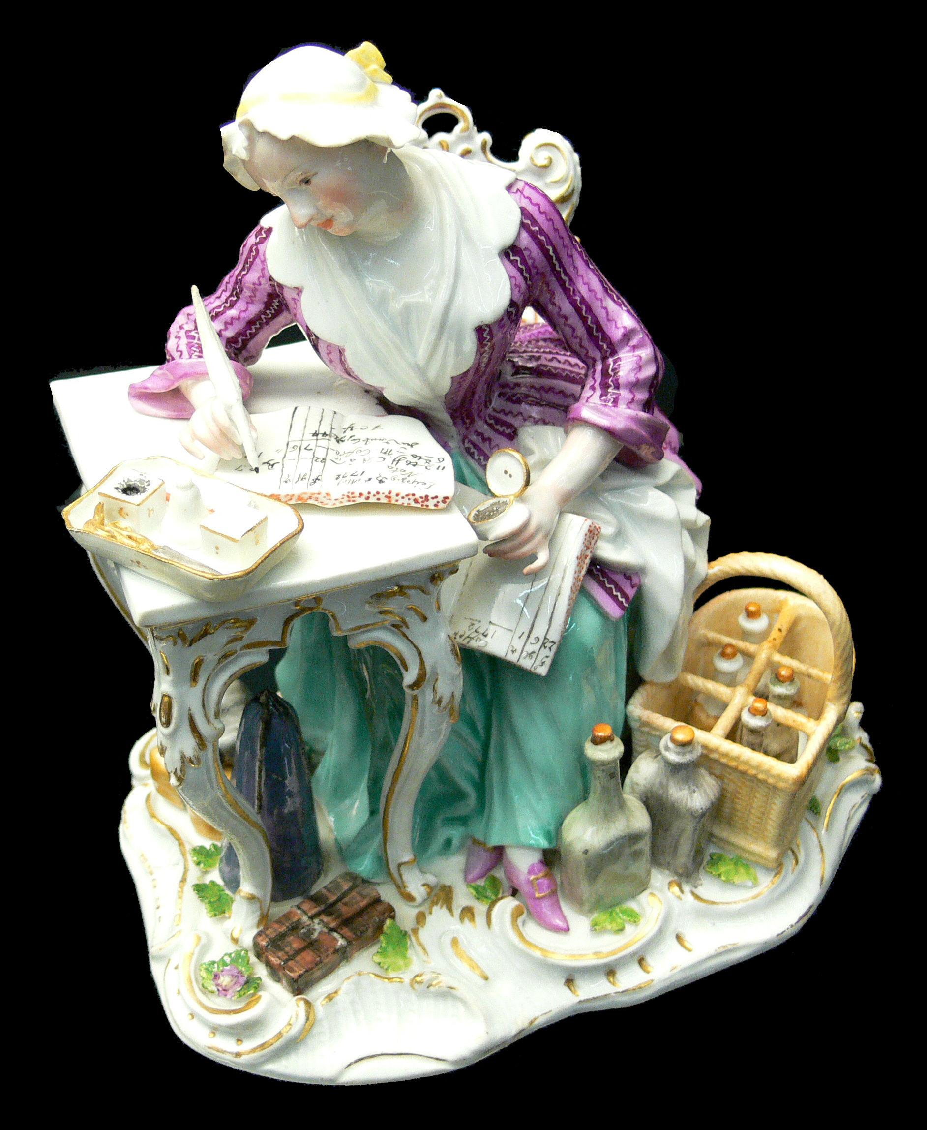 Female merchant writing, Meissen porcelain sculpture, 1772. Reiss-Engelhorn-Museen, Mannheim (displayed at the Zeughaus location of the museum).